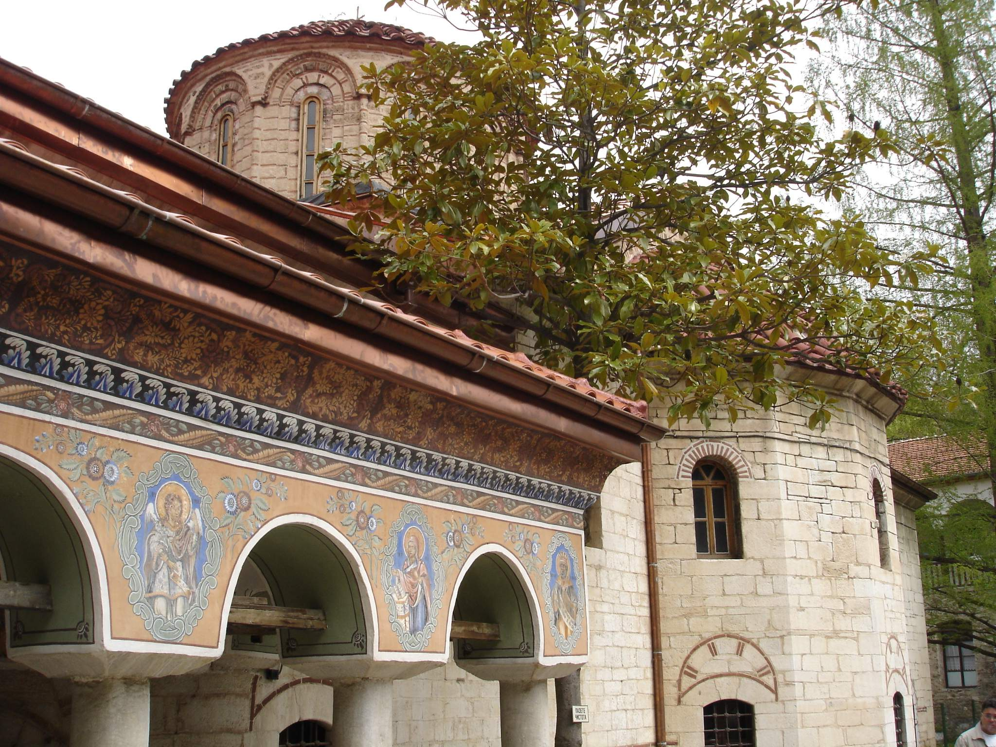 Bachkovo Monastery, Bulgaria